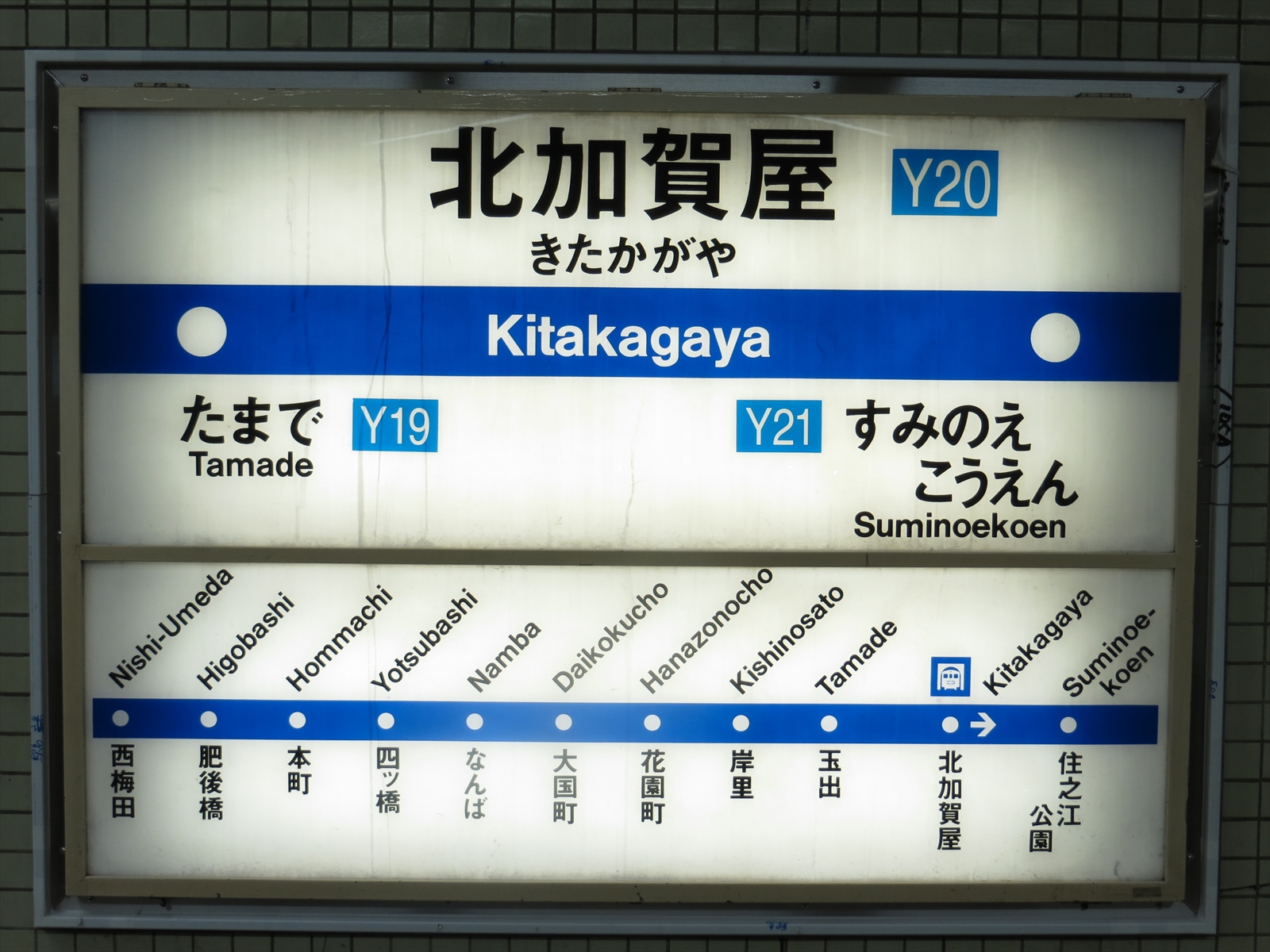 Sign form Kitakagaya Station.